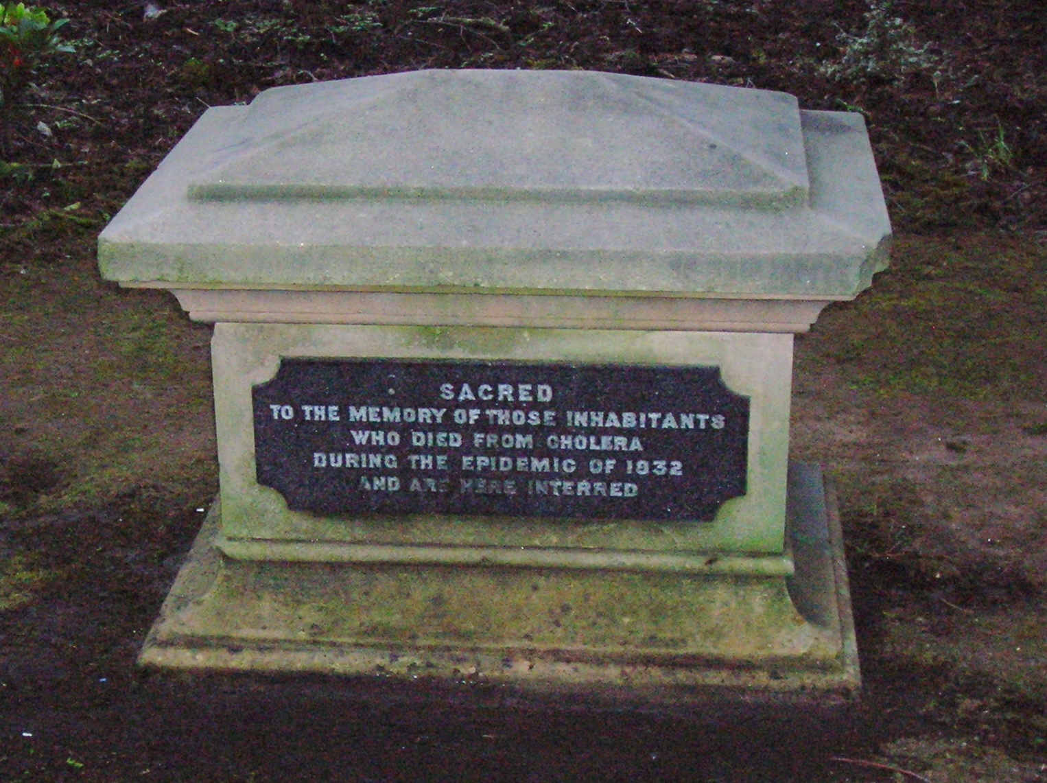 Memorial to the victims of the 1832 cholera epidemic at the cholera pit in Howard park, Kilmarnock, East Ayrshire, Scotland.